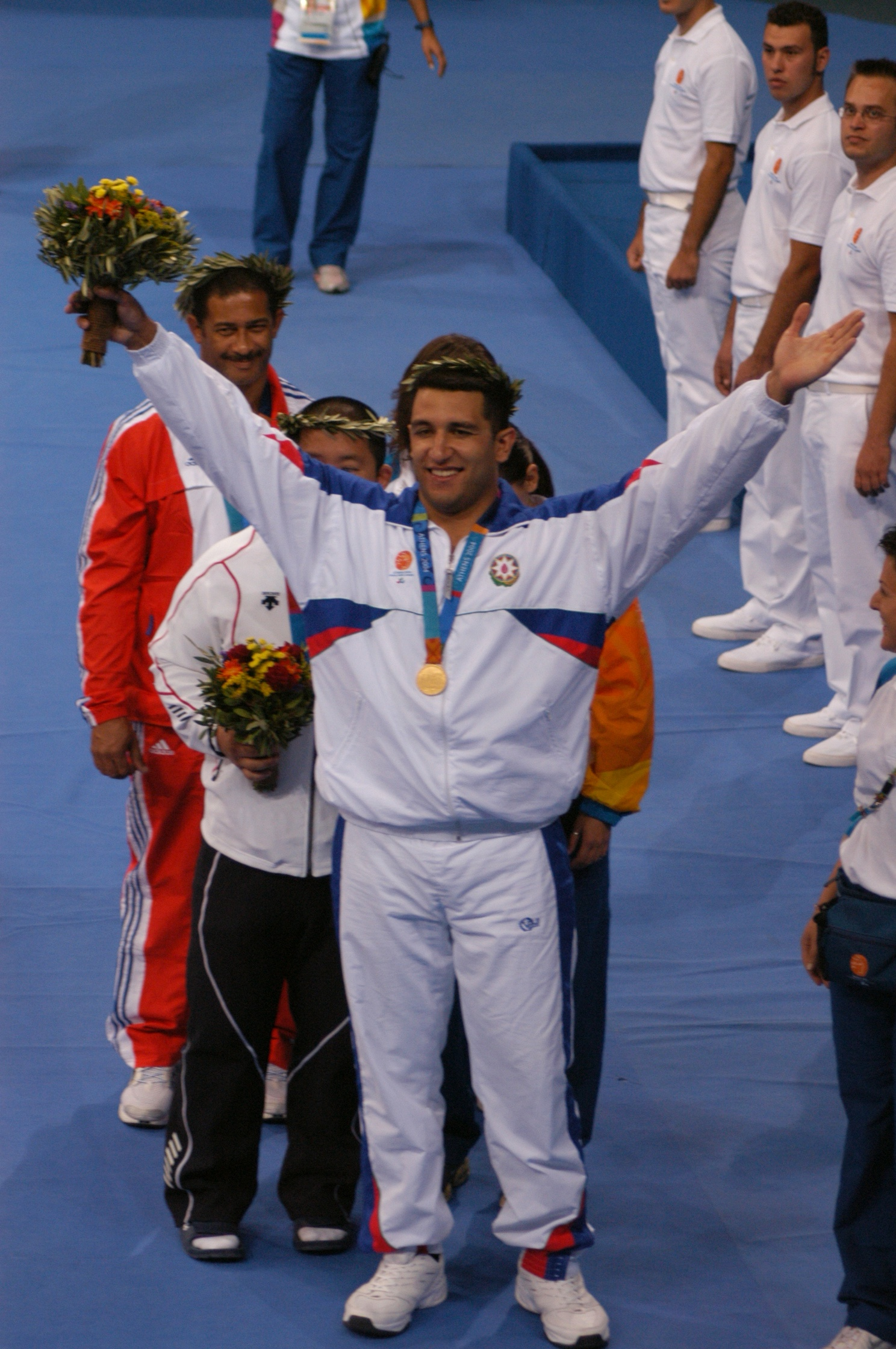 Ilham Zakiyev at 2004 Paralympics